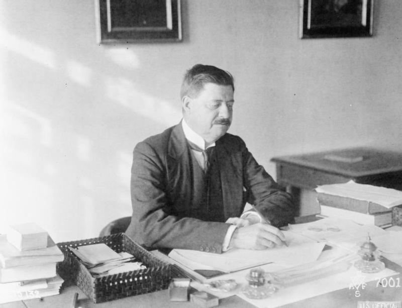 Siberia- Civil War and Western Intervention 1918-1920 General Charles Eliot, British High Commissioner to Siberia.